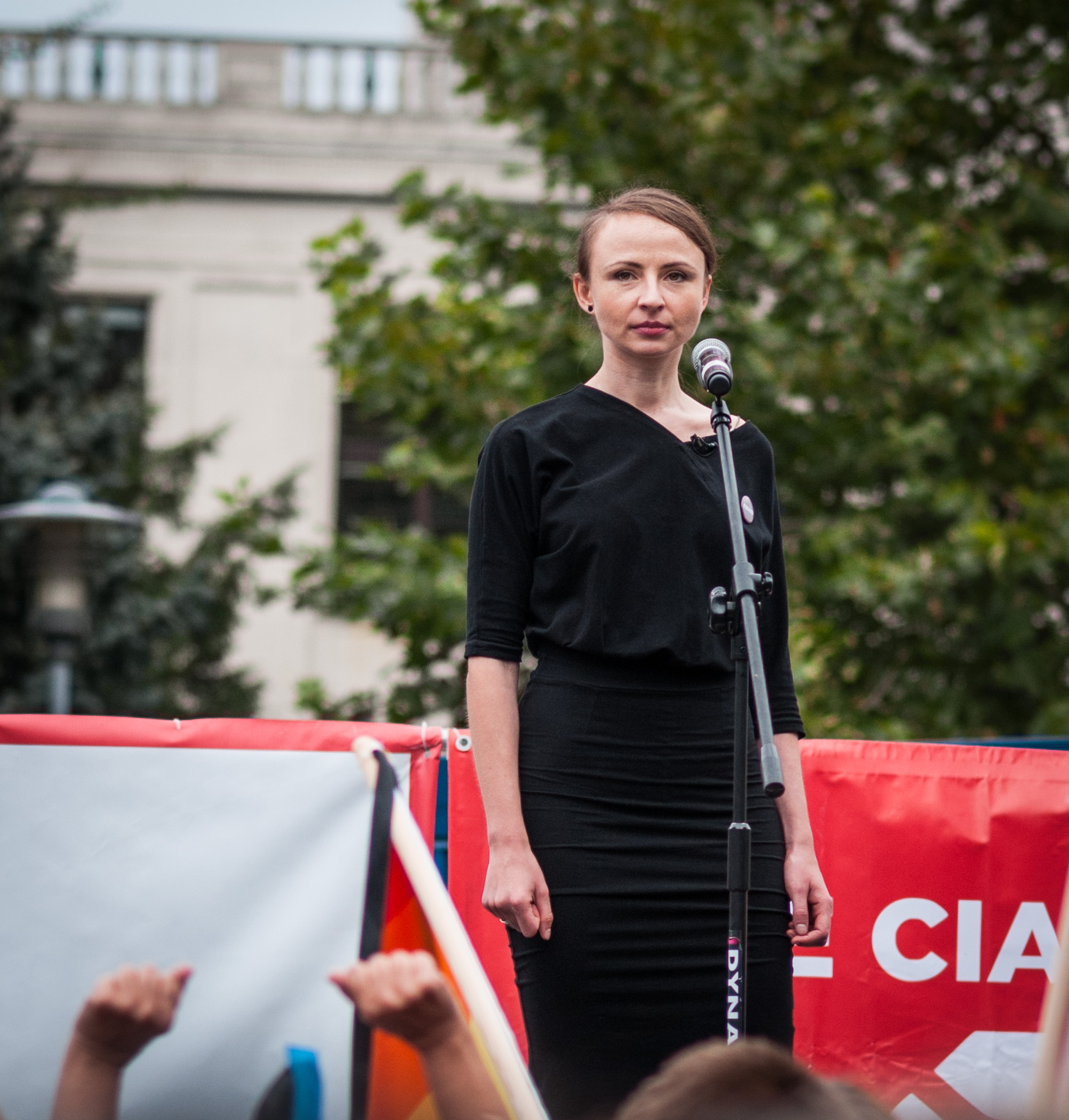 Agnieszka Dziemianowicz Bąk of Partia Razem